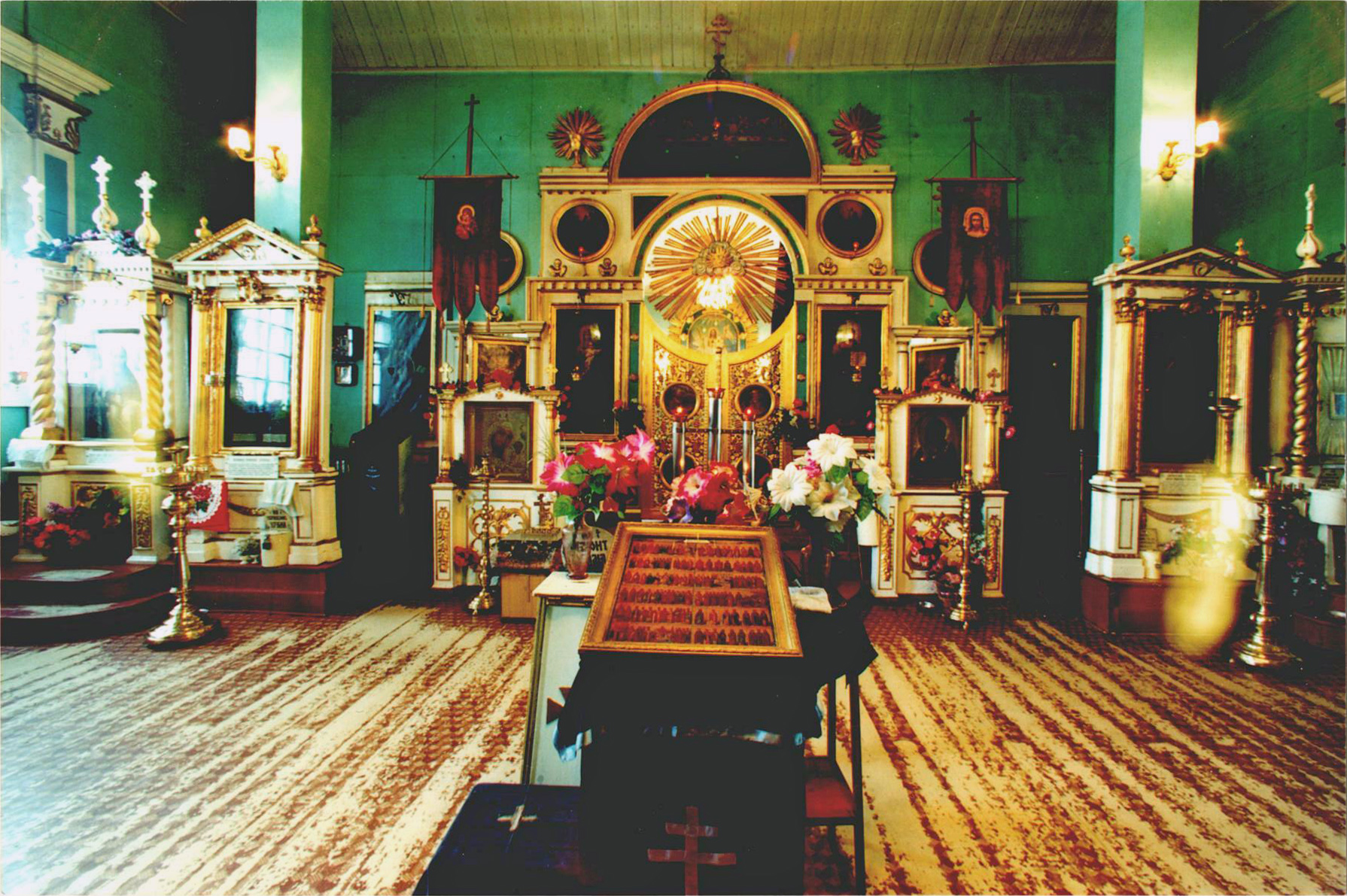 Krasnoye Selo (Russia)